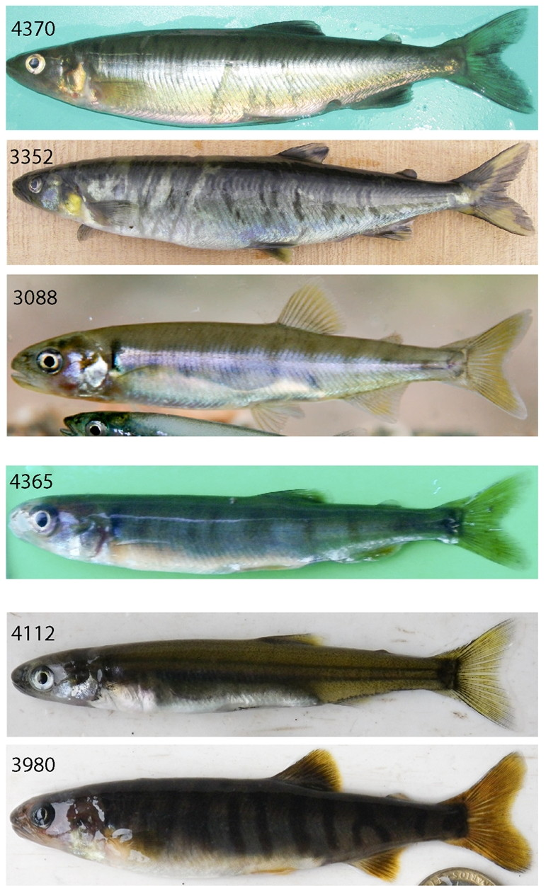 Aplochiton sp.